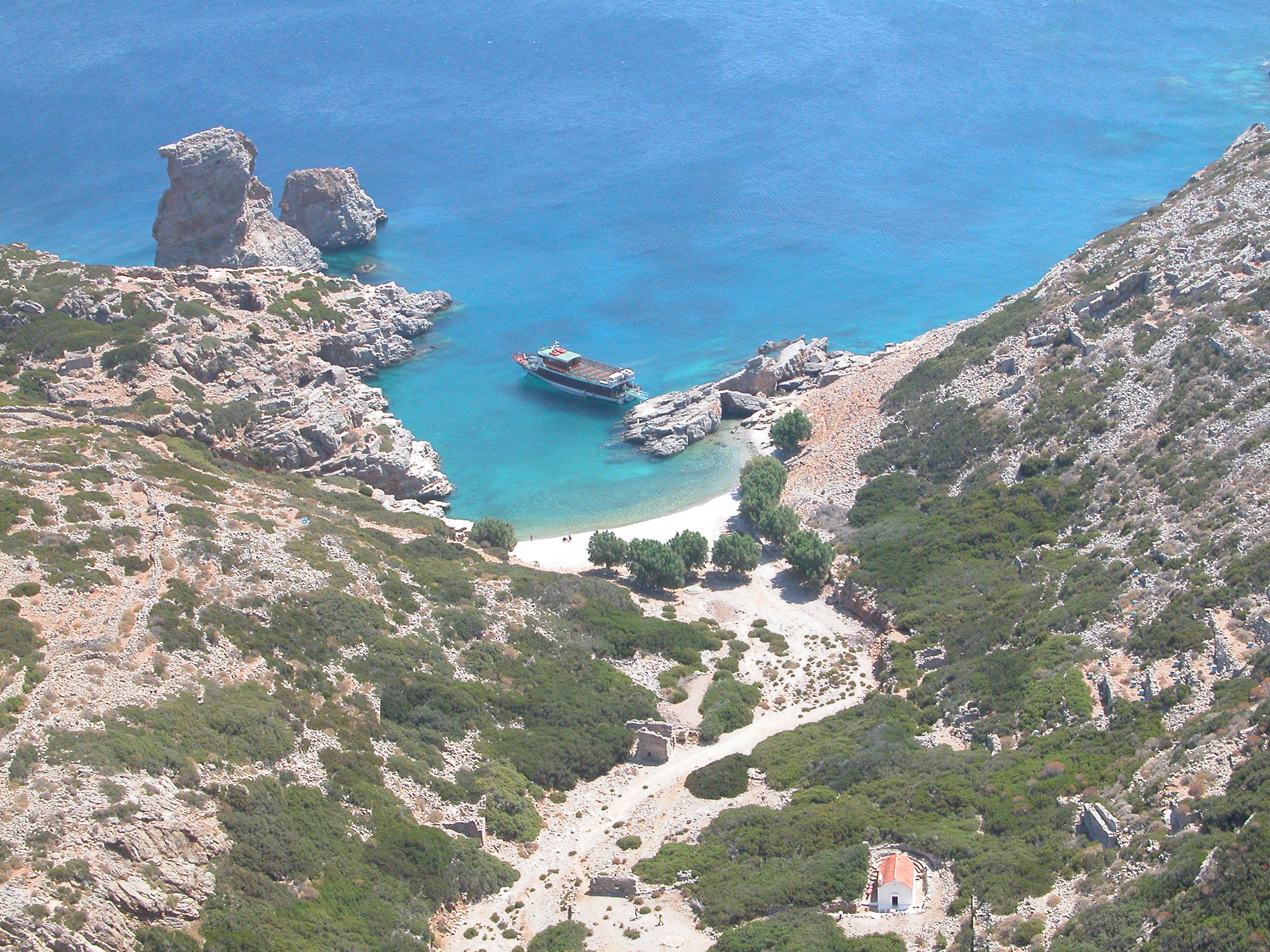 This is a photography of Natura 2000 protected area with ID GR4210003